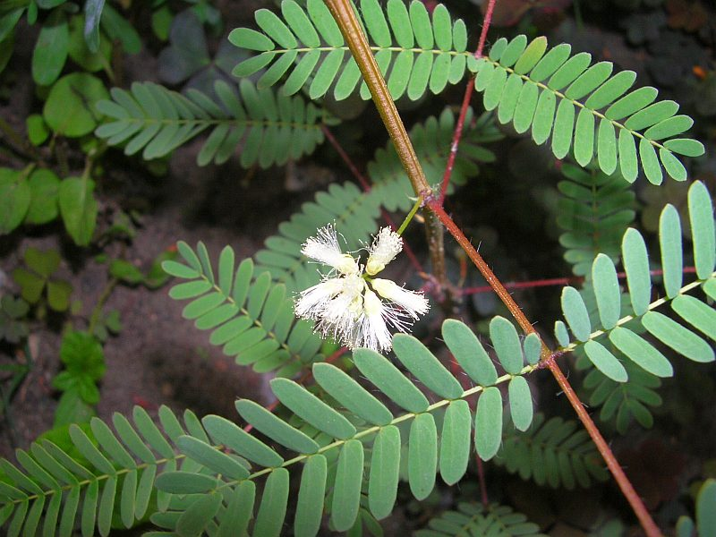 acacia angustissima flowering in Poland